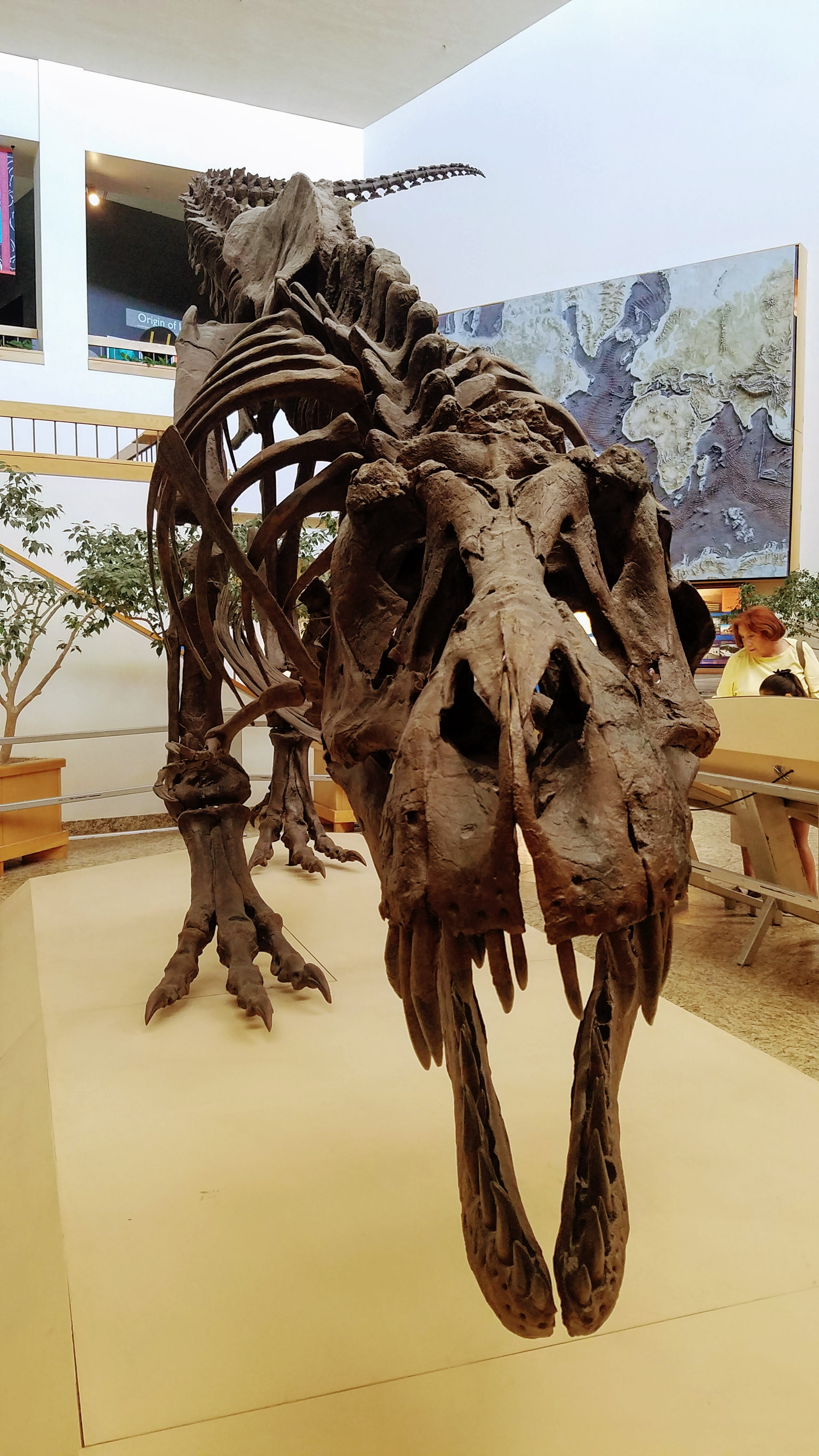 A cast of Stan at the New Mexico Museum of Natural History.